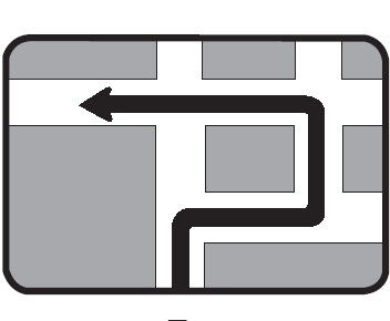 Diagram of road signs of Luxembourg